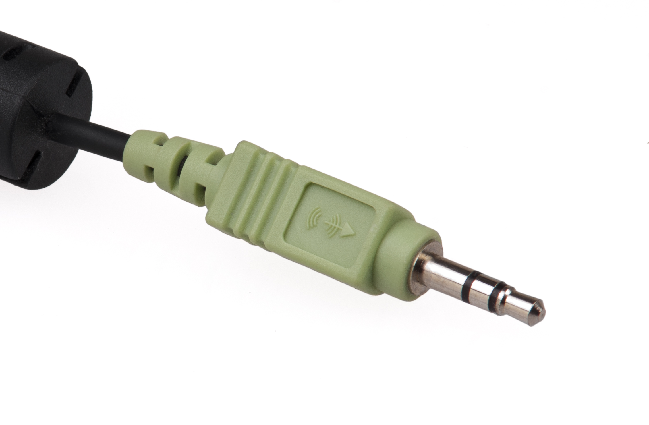 A standard, TRS mini jack for audio. This is used for connecting audio to a computer motherboard, hence the green color.